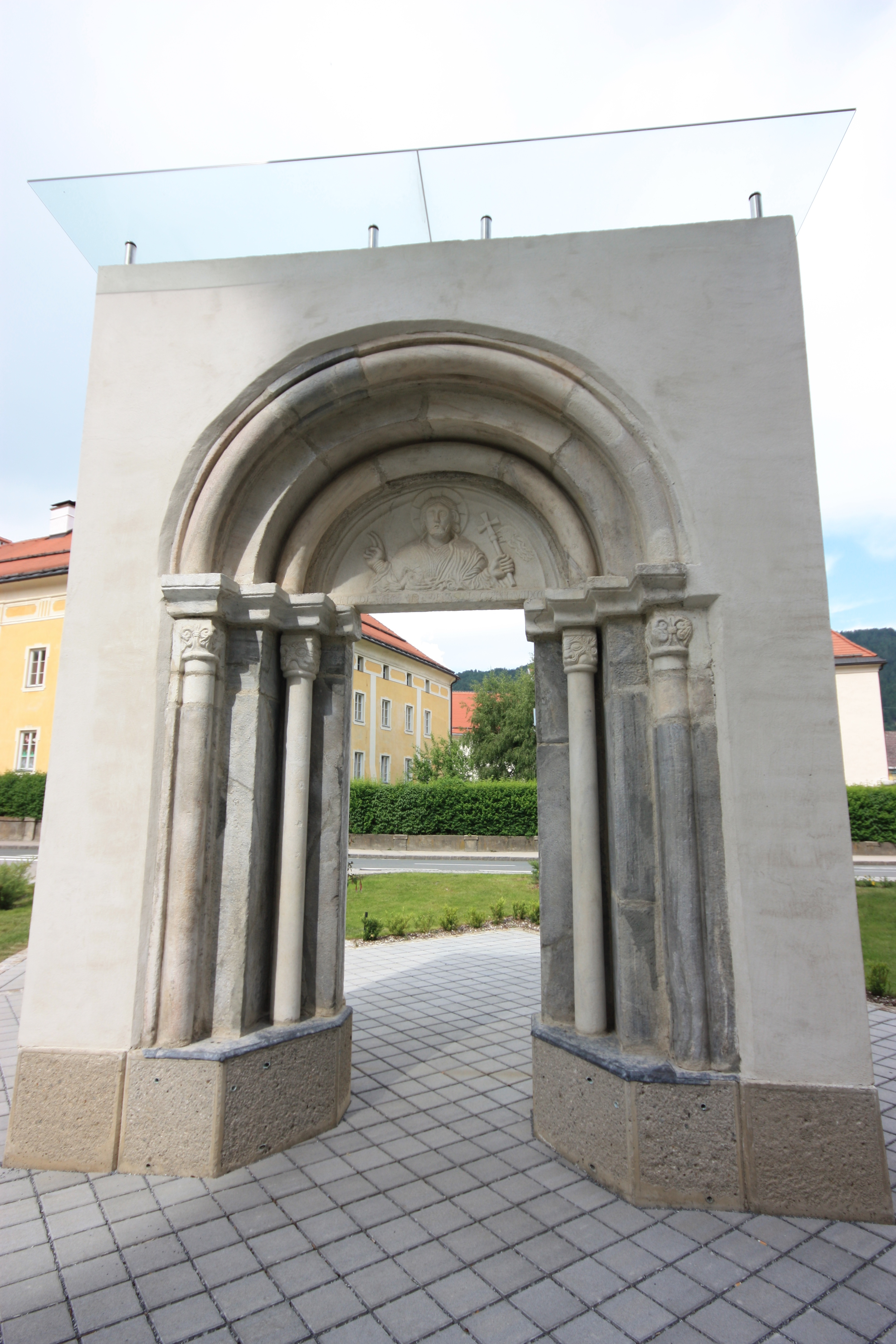 Portal of the former charnel house of the parish church in Friesach, Carinthia